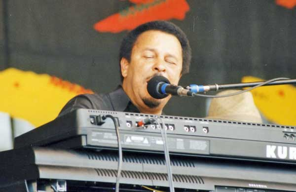 Willie Tee at the New Orleans Jazz & Heritage Festival